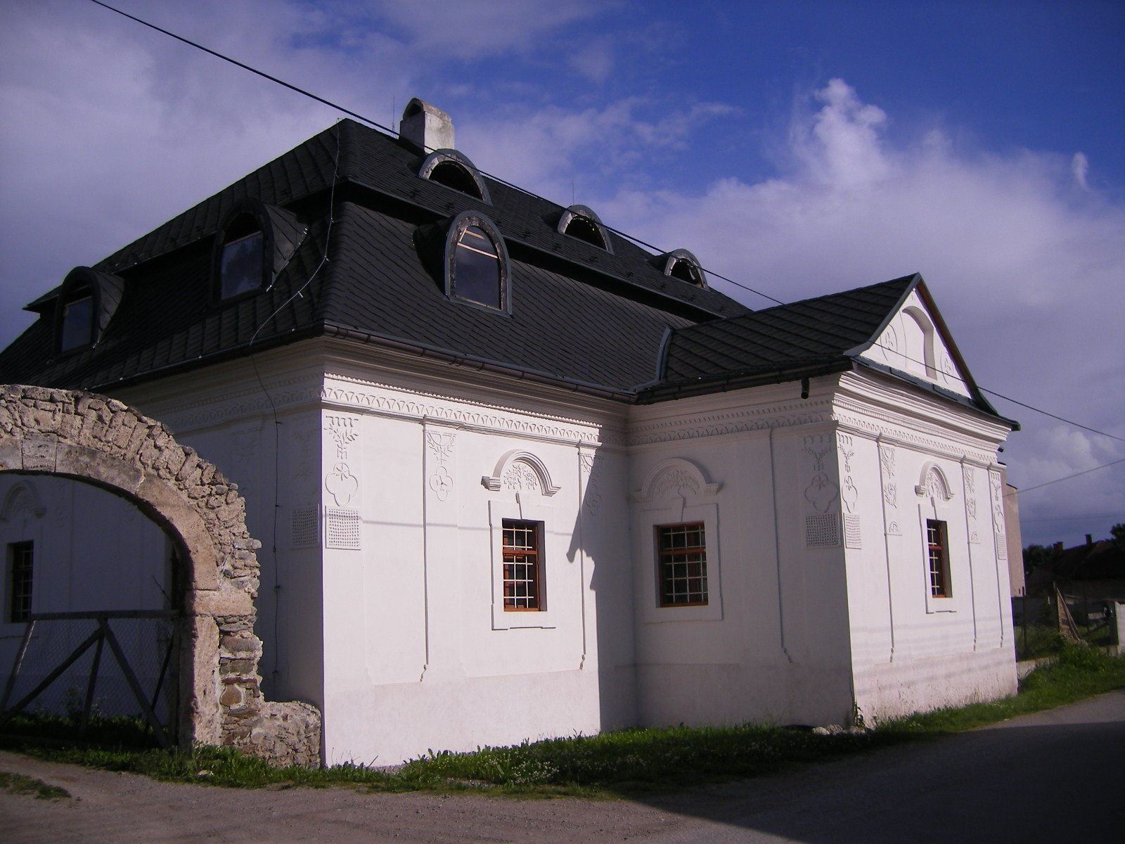 Košťany nad Turcom - castle